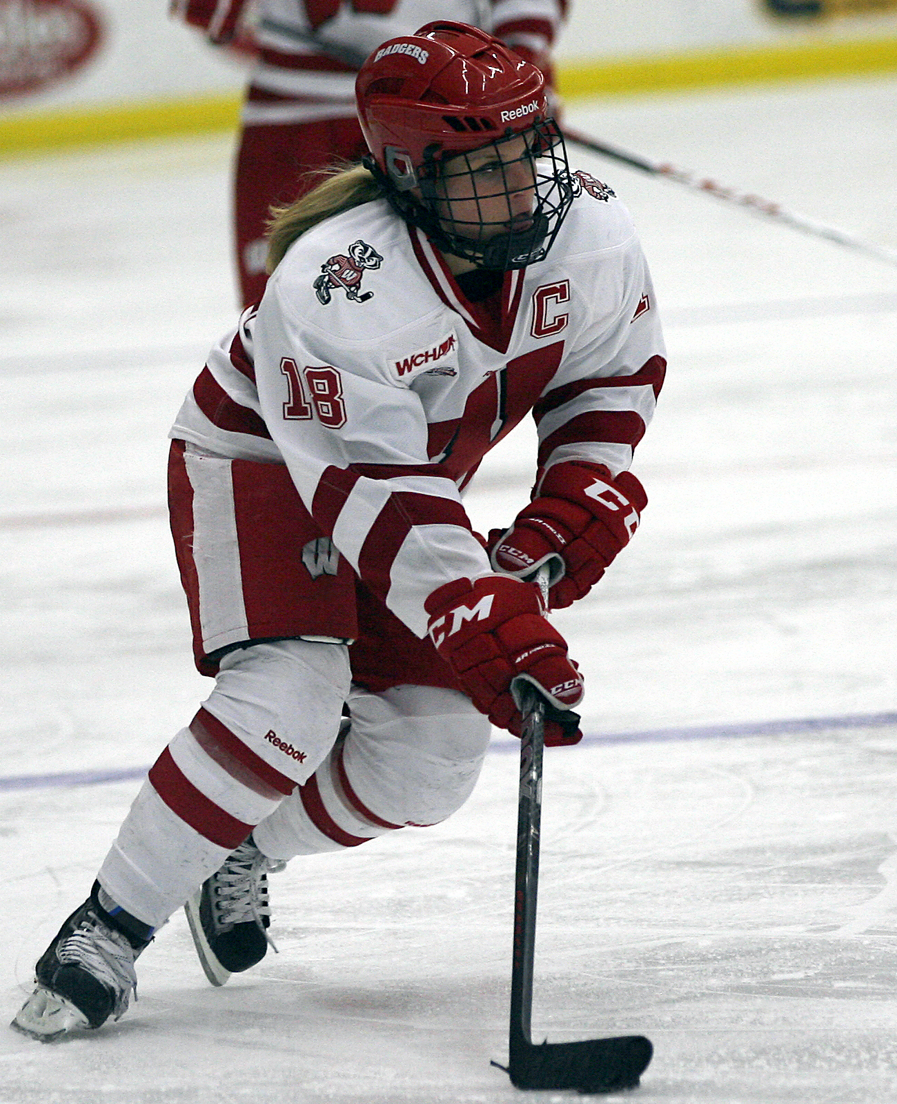 Wisconsin Badgers women's ice hockey forward Brianna Decker